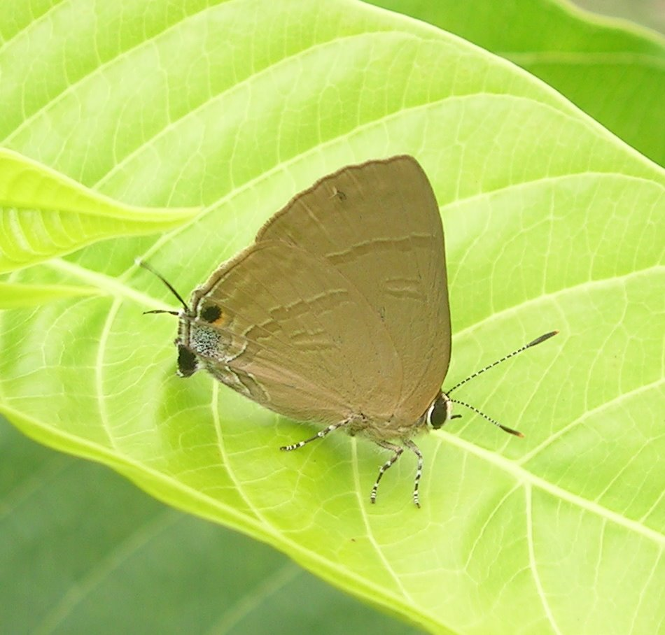 Unidentified Lycaenid (Rapala sp.). Javadi Hills, Tamil Nadu